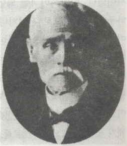 Lee Mun-ha, Joseon dynasty's politicians, father of Lee Beom-seok, prime minister of South Koreas